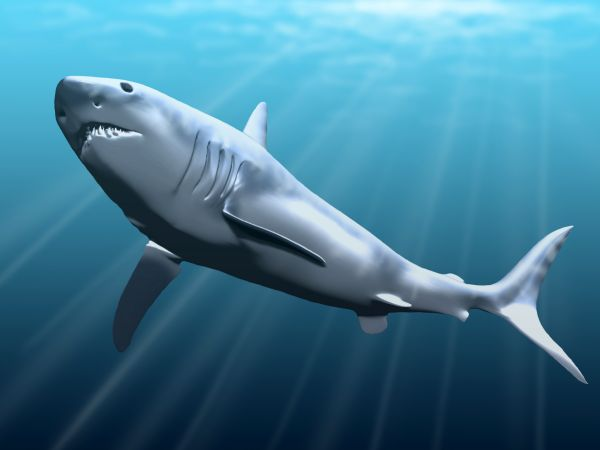 Megalodon